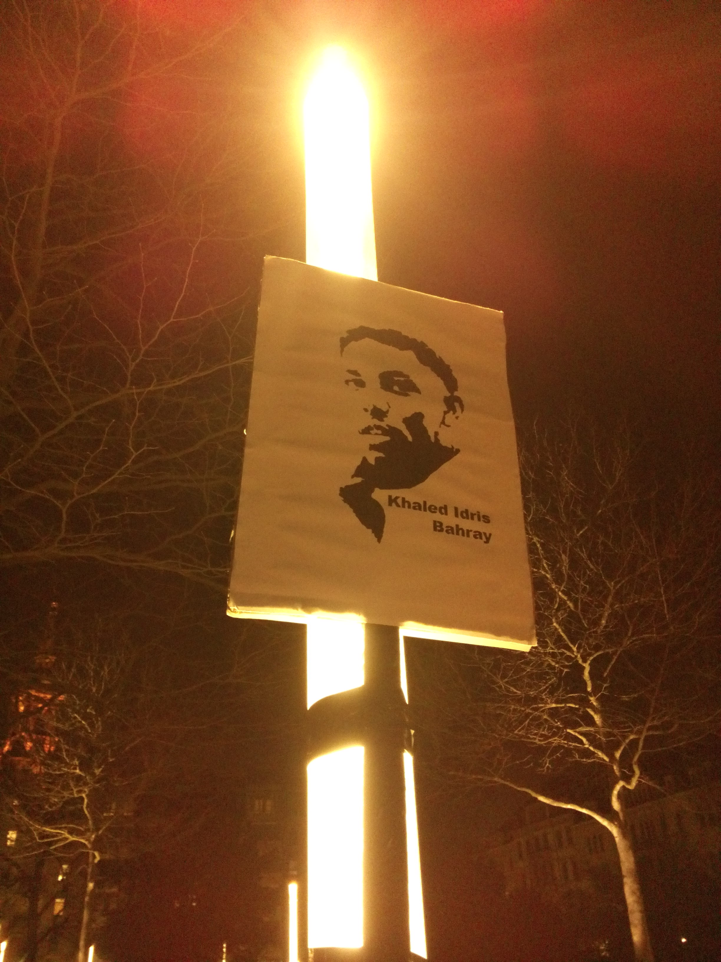 vigil in dresden at 17 jan 2015 in commemoration of the murder of khalid idris bahray